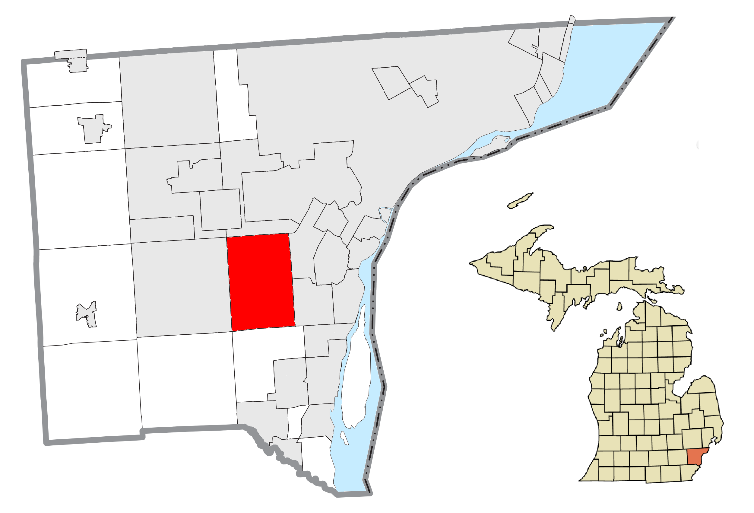 Taylor, MI